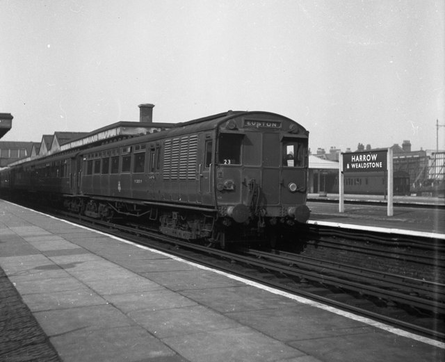 'Oerlikon' electric train at Harrow and Wealdstone, Middlesex. These heavy electric trains, which were in use at this time on the services from Watford Junction to Euston and Broad Street, and also from Broad Street to Richmond, had electrical equipment by the Swiss firm of Oerlikon. They were both reliable and fast, but they caused considerable wear to the tracks, which were shared with London Transport's 'Bakerloo' tube trains. The Oerlikon trains were replaced during 1957-58 with more modern (but much less interesting) stock. These services still continue, nowadays using Class 313 and Class 508 trains.